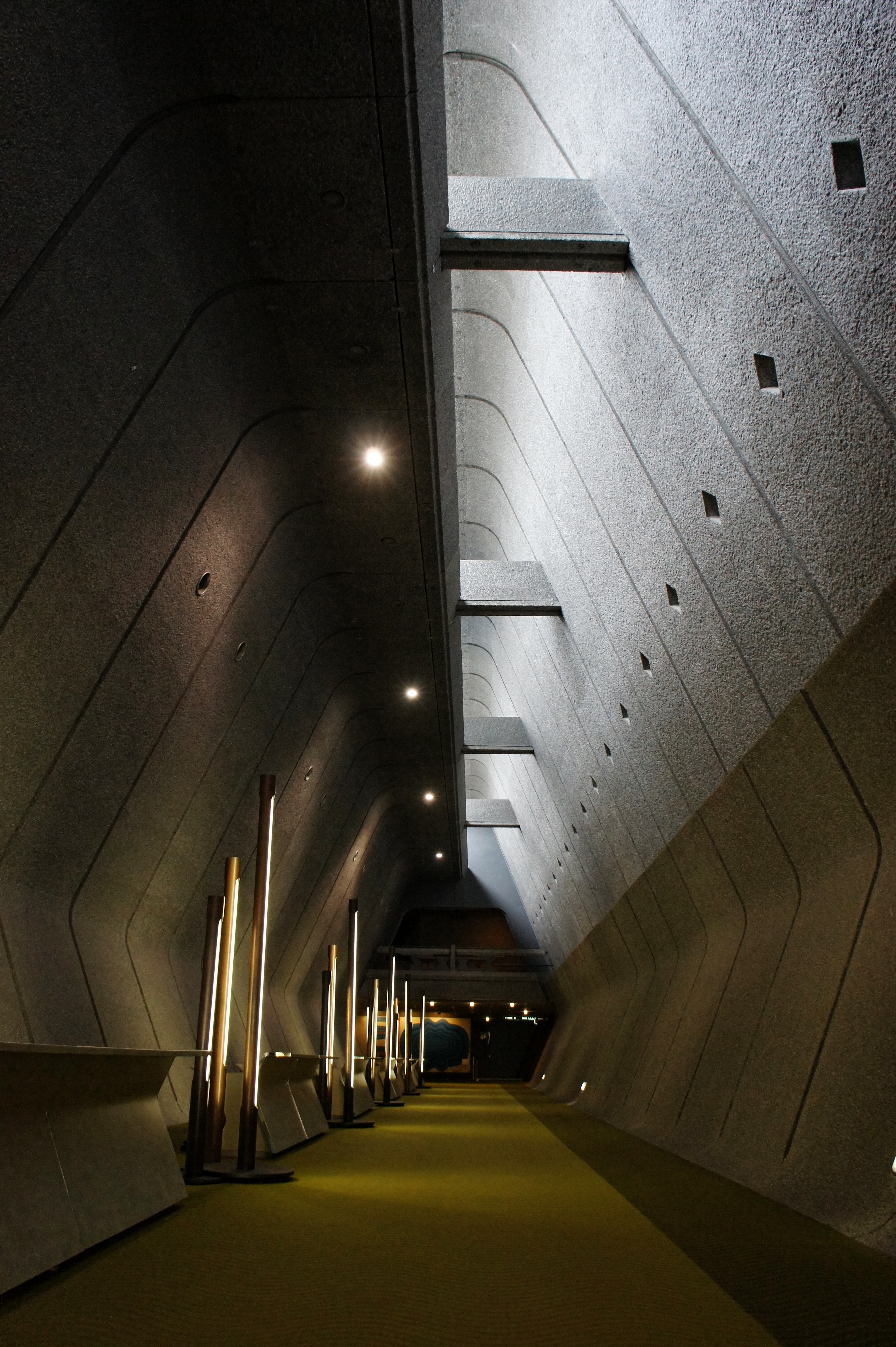 Kyoto International Conference Center in Sakyō-ku, Kyoto, Kyoto Prefecture, Japan.